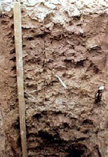 Cross-section of a menfro soil monolith